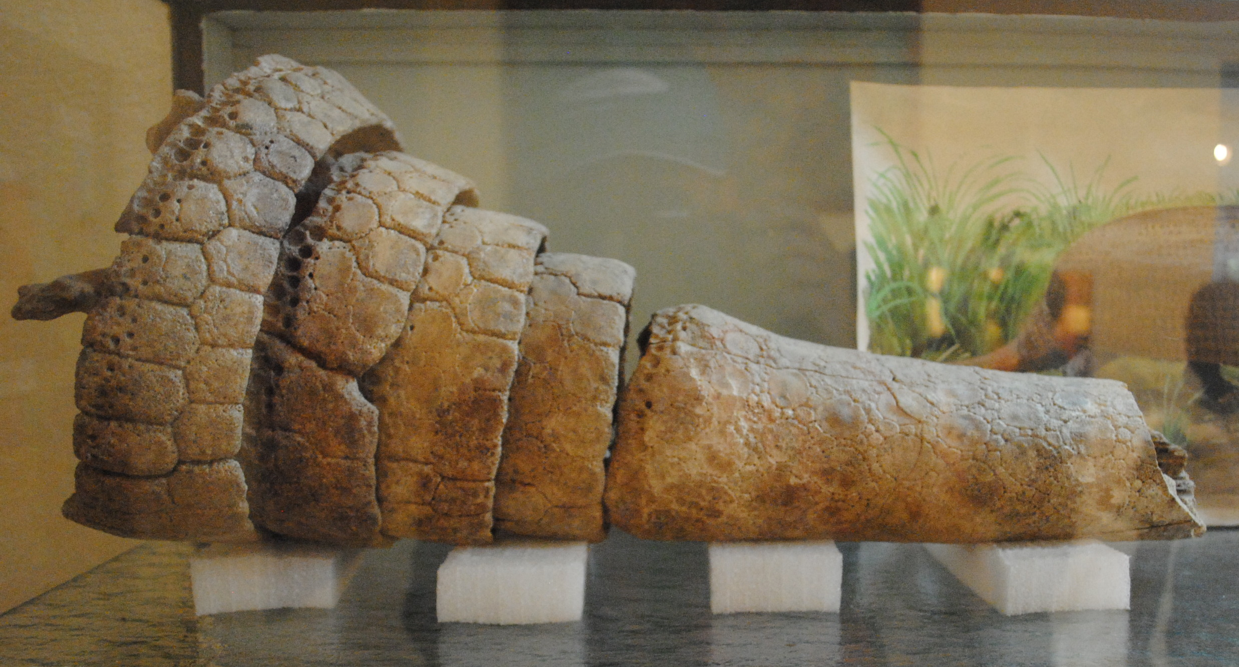 Tail of Neosclerocalyptus, Municipal Museum Punta Hermengo, Florentino Ameghino Park, Miramar, Argentina